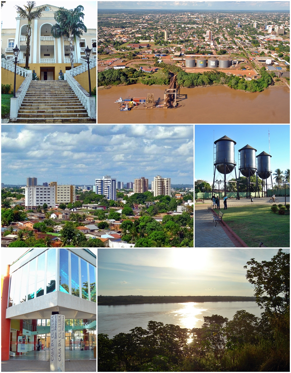 Montage of Porto Velho, Rondônia, Brazil.